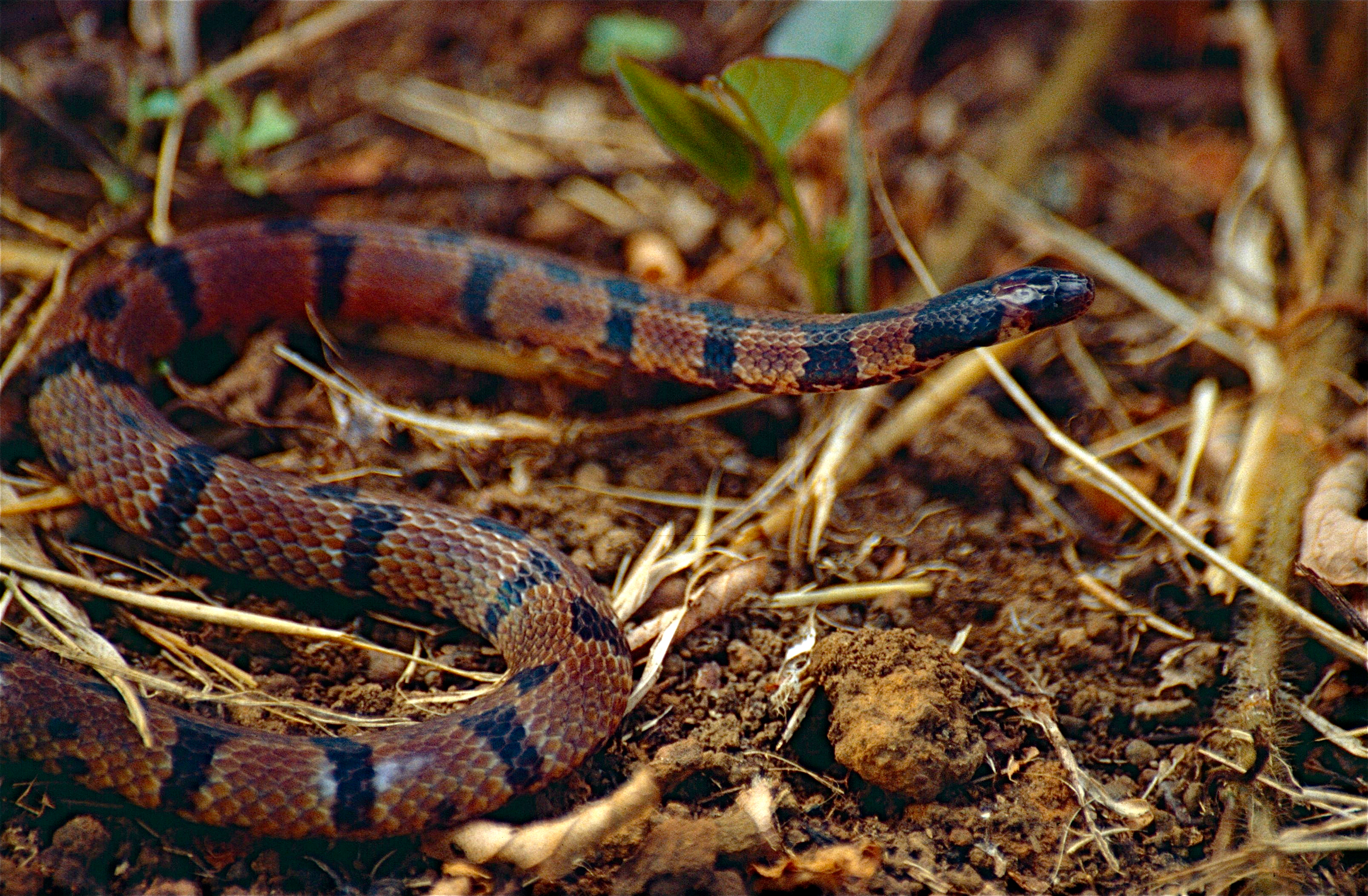 Saül, Guyane, FRANCE Scanned Slide from 2000